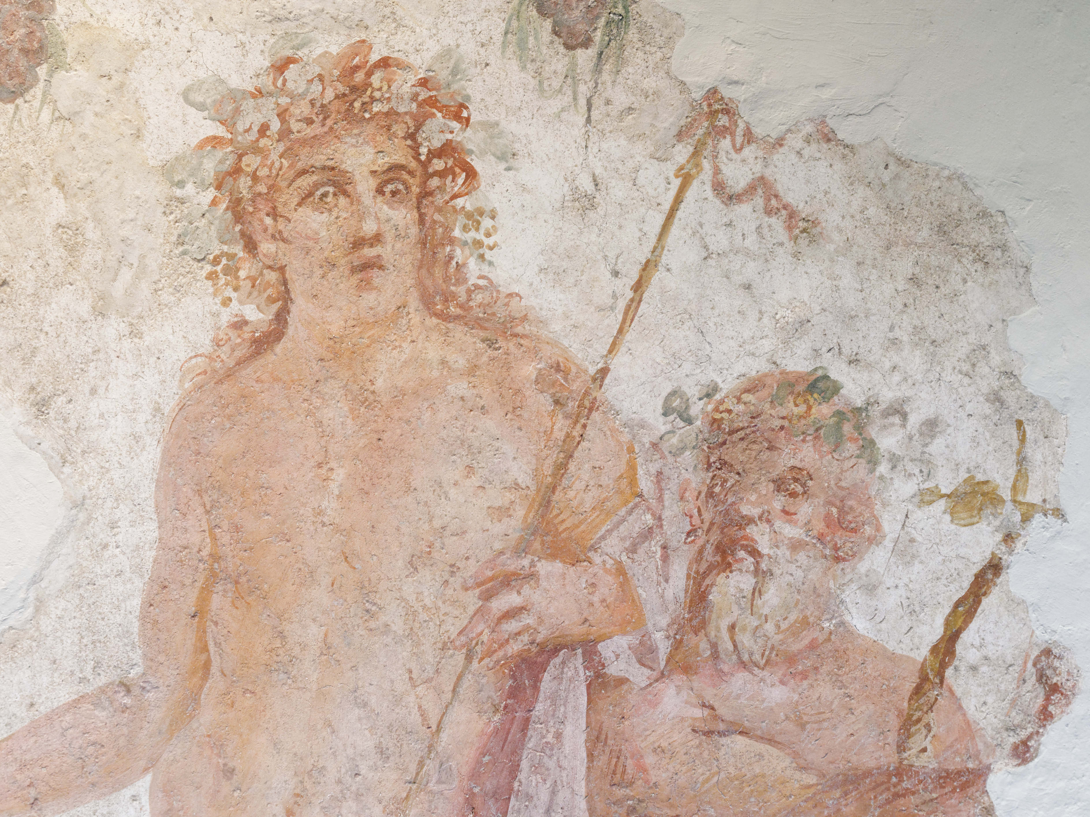 Bacchus pours wine from a cup for a panther, while Silenus plays the lyre.